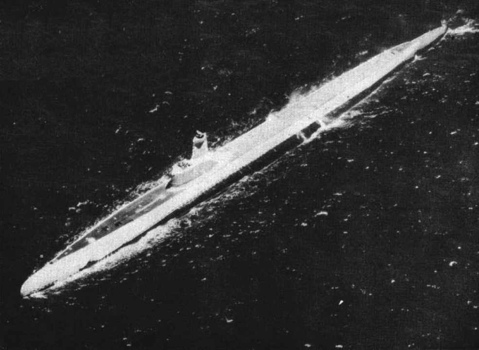 The U.S. Navy submarine USS Pomodon (SS-486) following her "GUPPY I" refit at the Mare Island Naval Shipyard. Following the Second World War, the U.S. Navy studied German Type XXI submarines, which featured a greatly increased underwater speed and endurance. The first restult was the "Greater Underwater Propulsive Power Program" (GUPPY) reconstruction of Odax (SS-484) and Pomodon in 1947. Both submarines were received a more streamlined hull, a new streamlined sail, and a double amount of batteries.